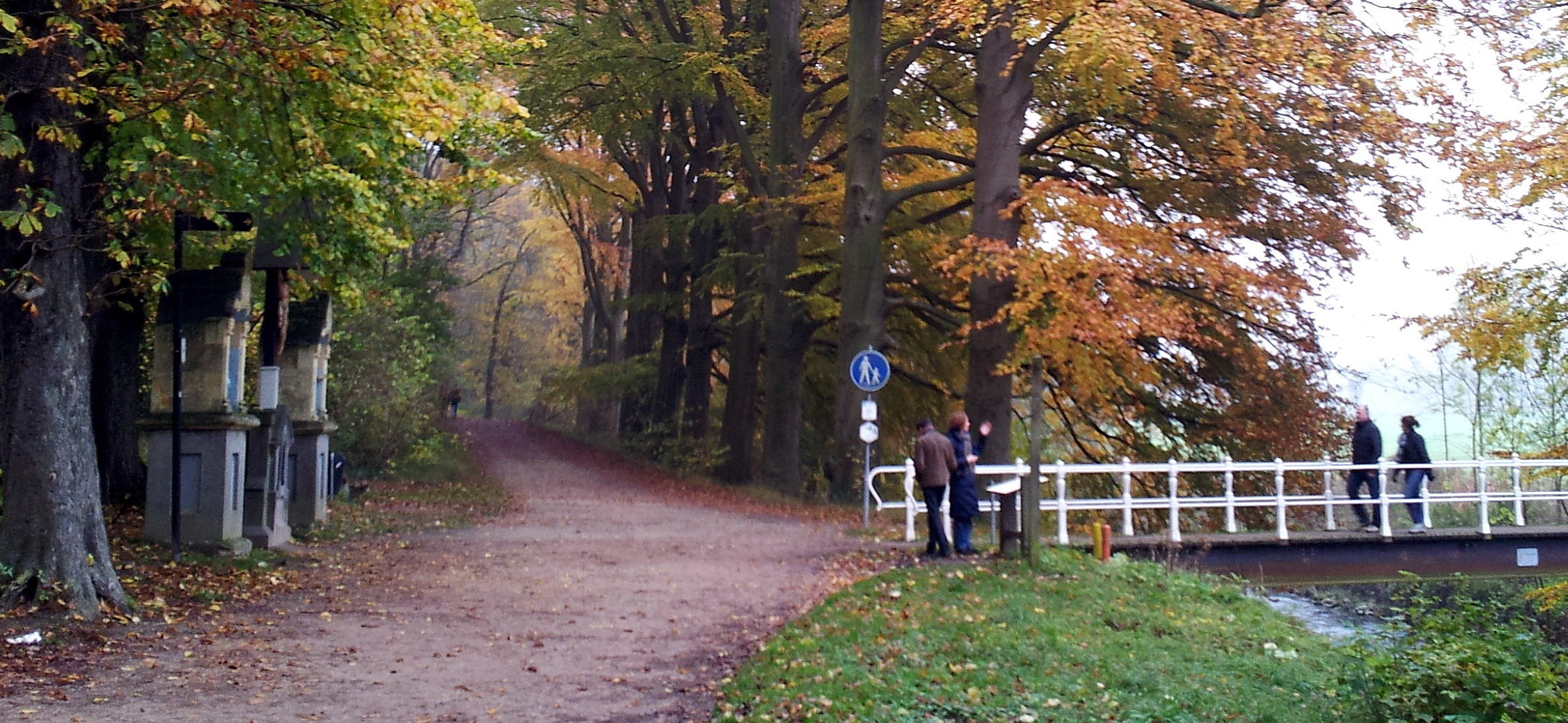 Forest view at bridge over river Geul and at Drie Beeldjes, near Schaloen Castle, Oud-Valkenburg, Limburg, Netherlands.